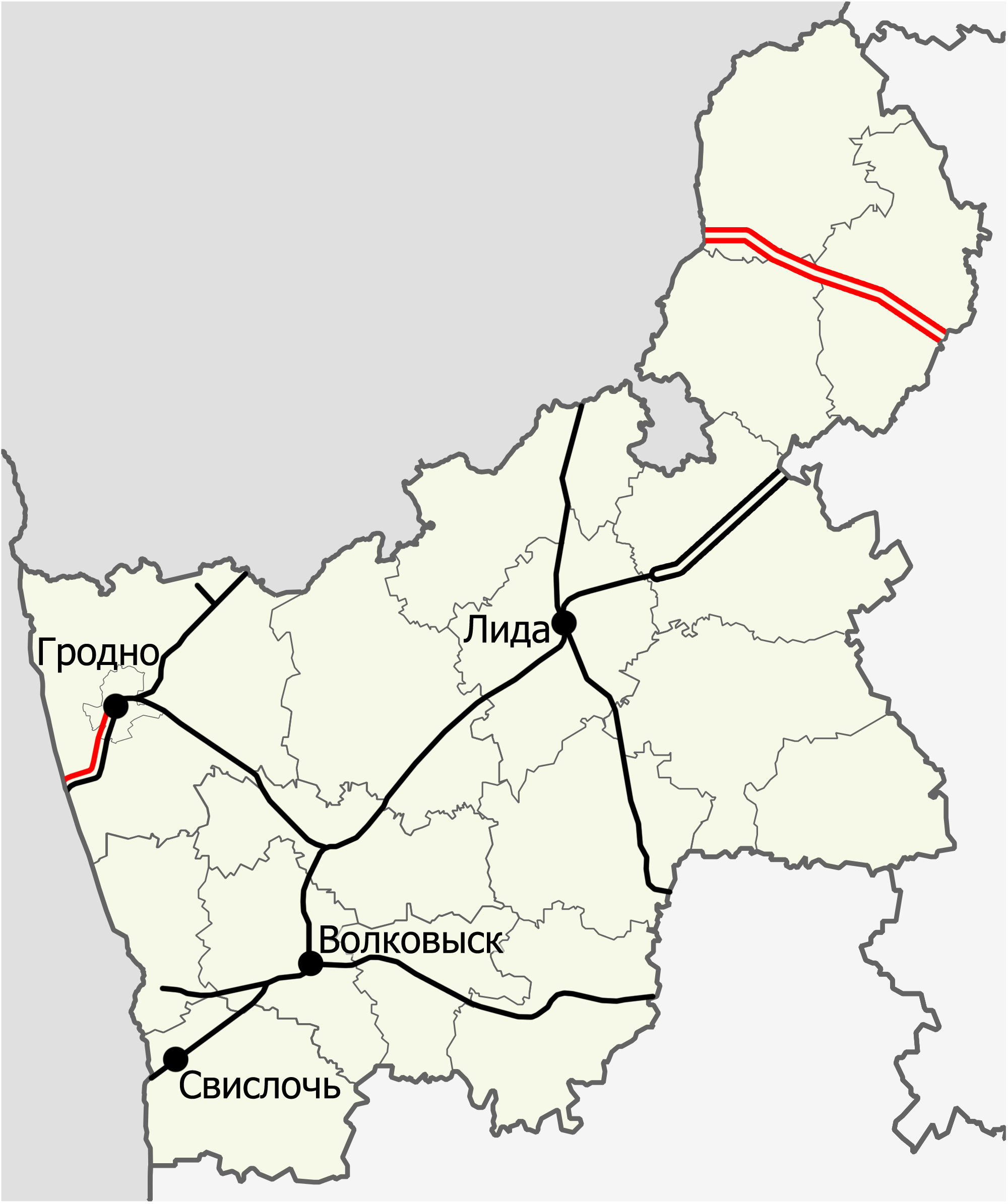 Railroads in Hrodzienskaja voblasć (Berlarus). Electrified lines are shown in red, main station are signed.